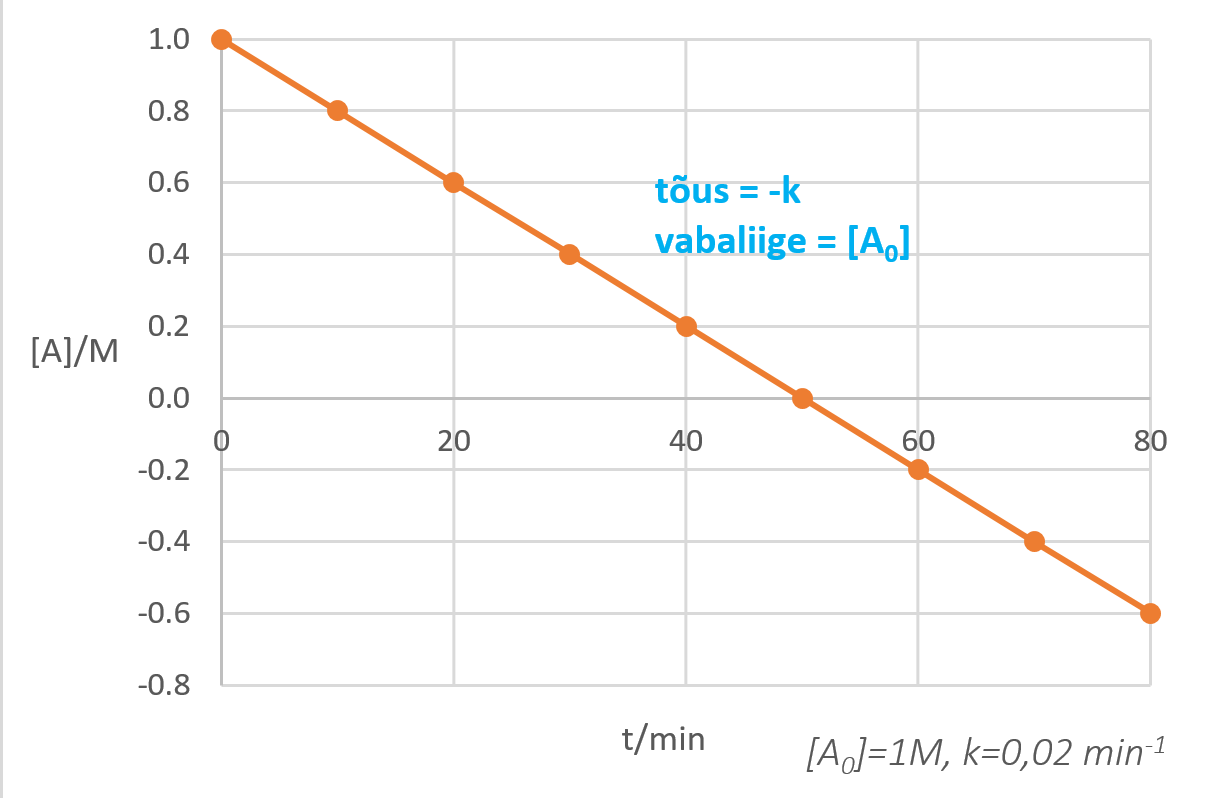 Linear function of second order reaction.